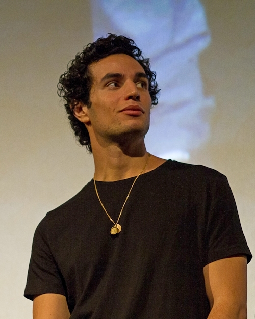 Adam Bakri with Eyad Hourani (Toronto International Film Festival 2013, Bloor Hot Docs Theatre)